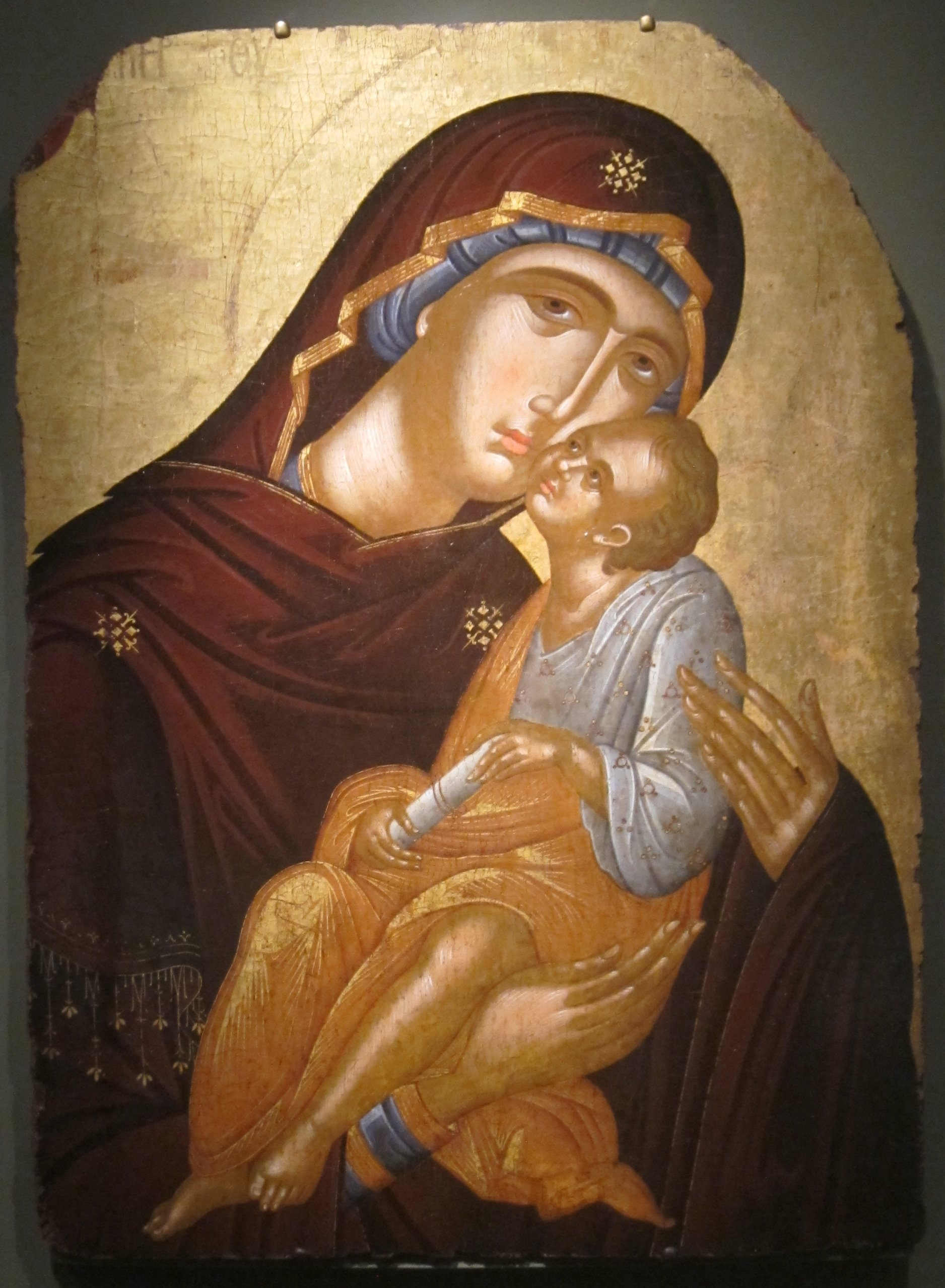 Icon of the Mother of God and Infant Christ, tempera and gold on wood panel by Angelos Akotantos, c. 1425-50, Cleveland Museum of Art